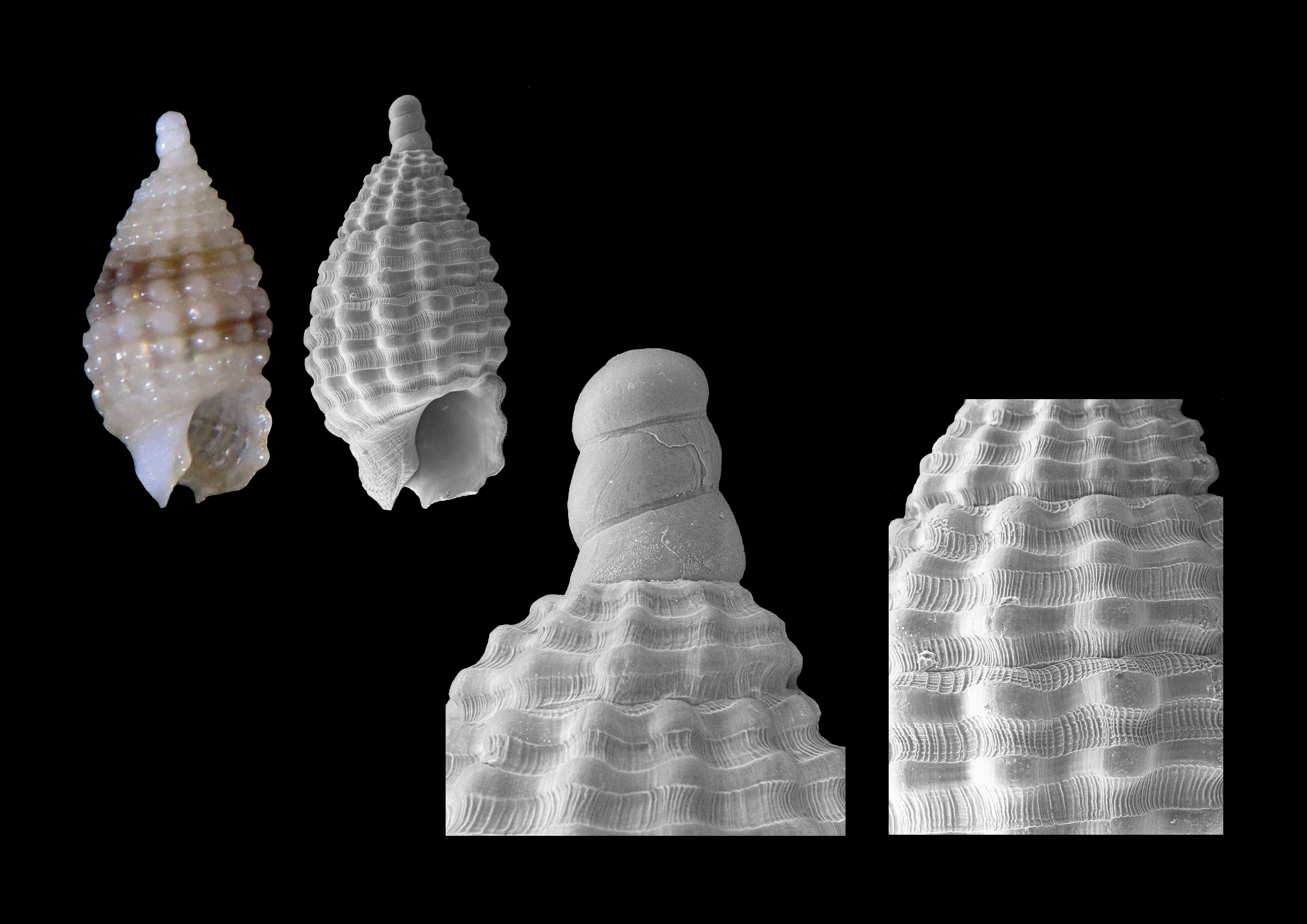 Joculator boguszae holotype (MNHN-IM-2000-33505); full conch in color (upper left) SEM image (upper right), SEM detail images of conch top (lower left) and surface structure (lower right). Collected 11 October 2012, Bil Island, Papua New Guinea.